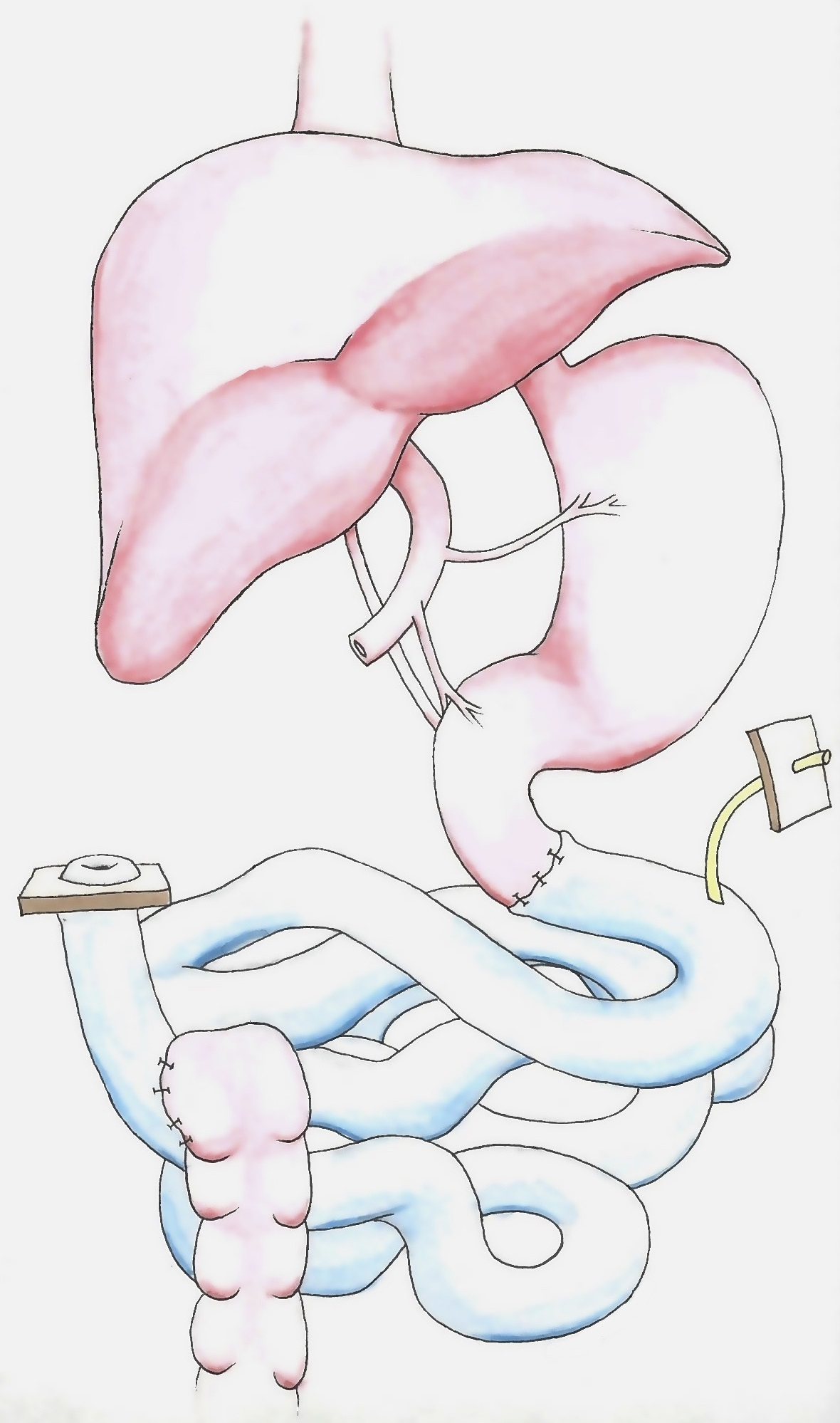 Diagram of an Intestine Transplant by Celeste Silling